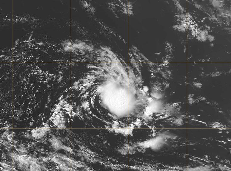 Storm of February 2006.